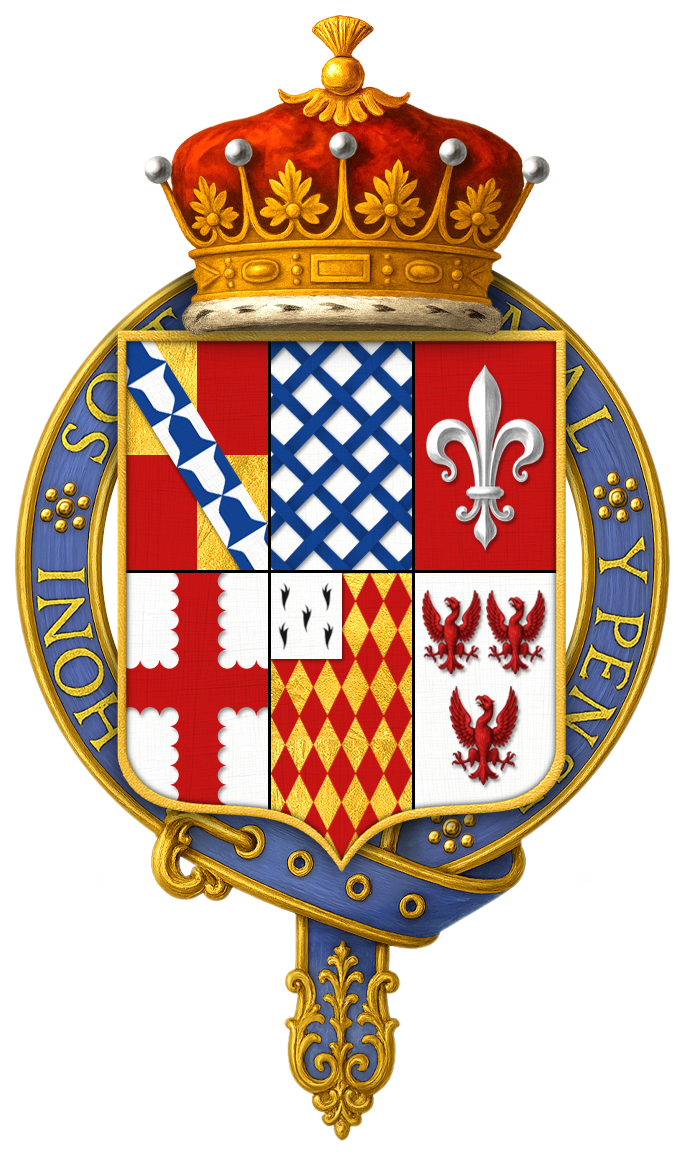 Coat of arms of Sir Edward Sackville, 4th Earl of Dorset, KG